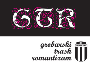 GTR